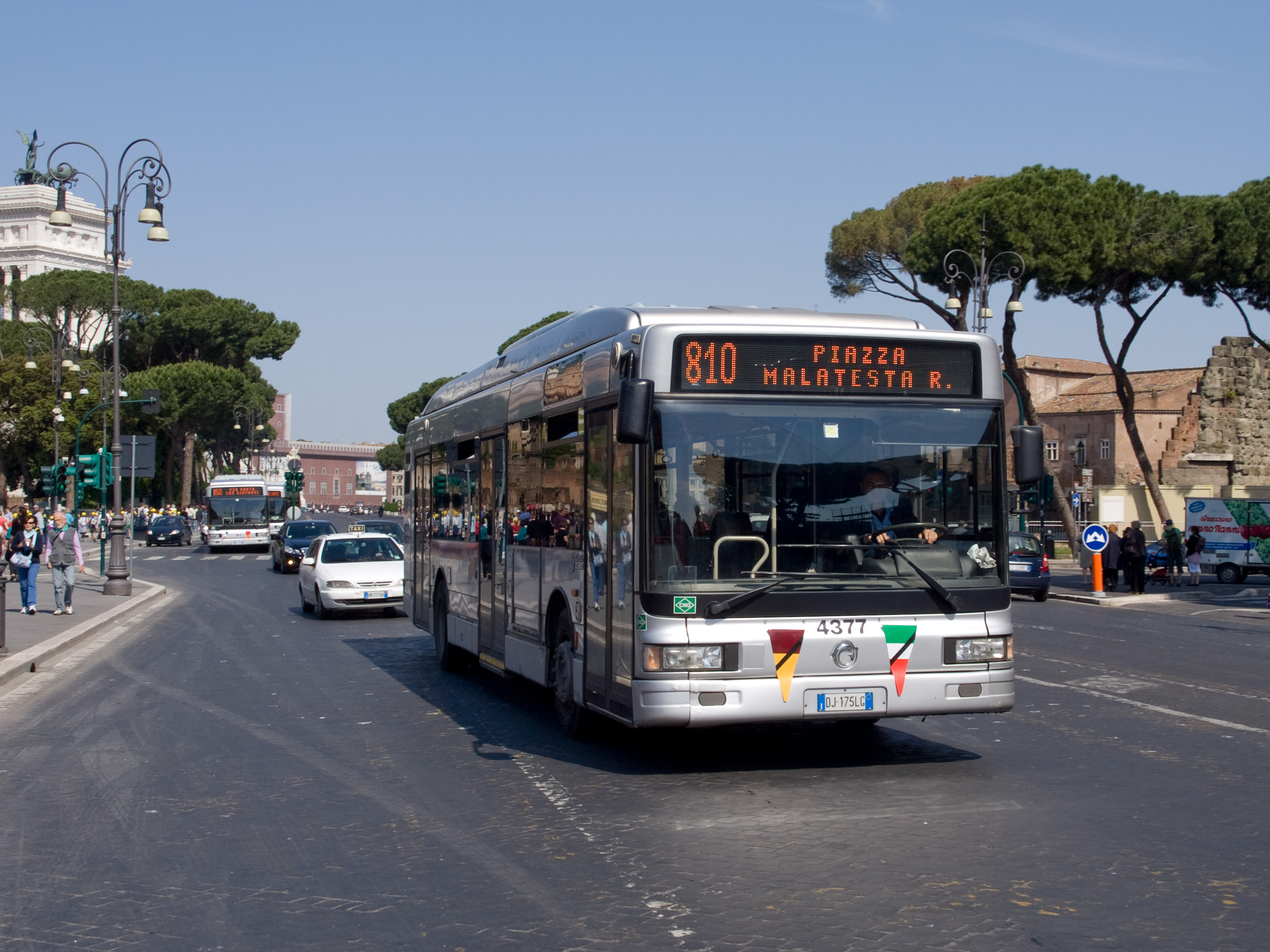 Irisbus at line 810 near Colloseum, Roma